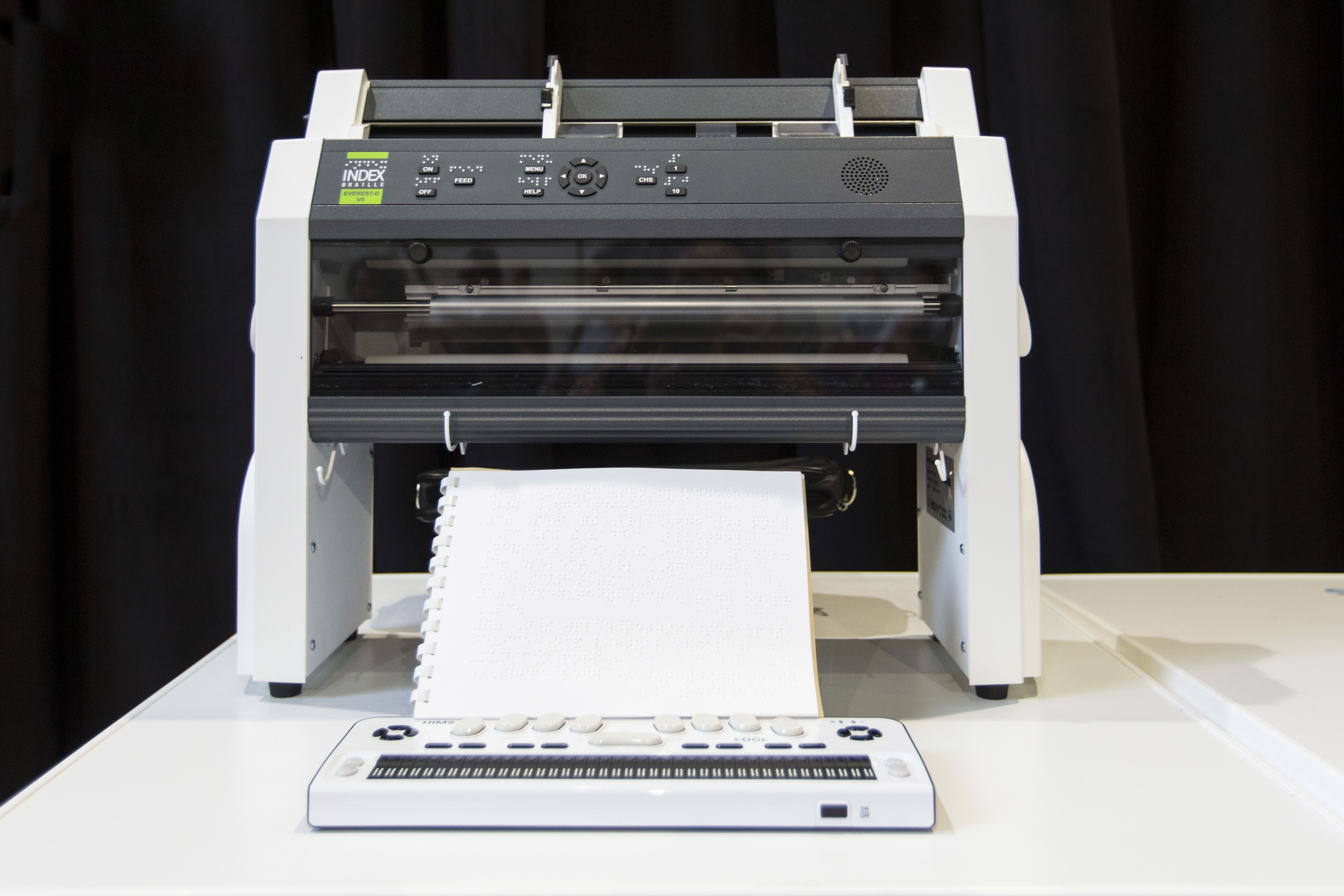 Index Everest-D V5, a braille embosser.